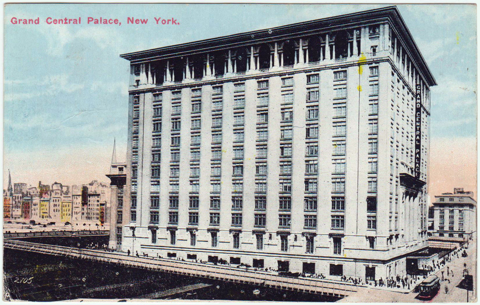 Postcard of the Grand Central Palace exhibition building in New York City Source indicates postcard was used and bears a postal cancellation of 1917